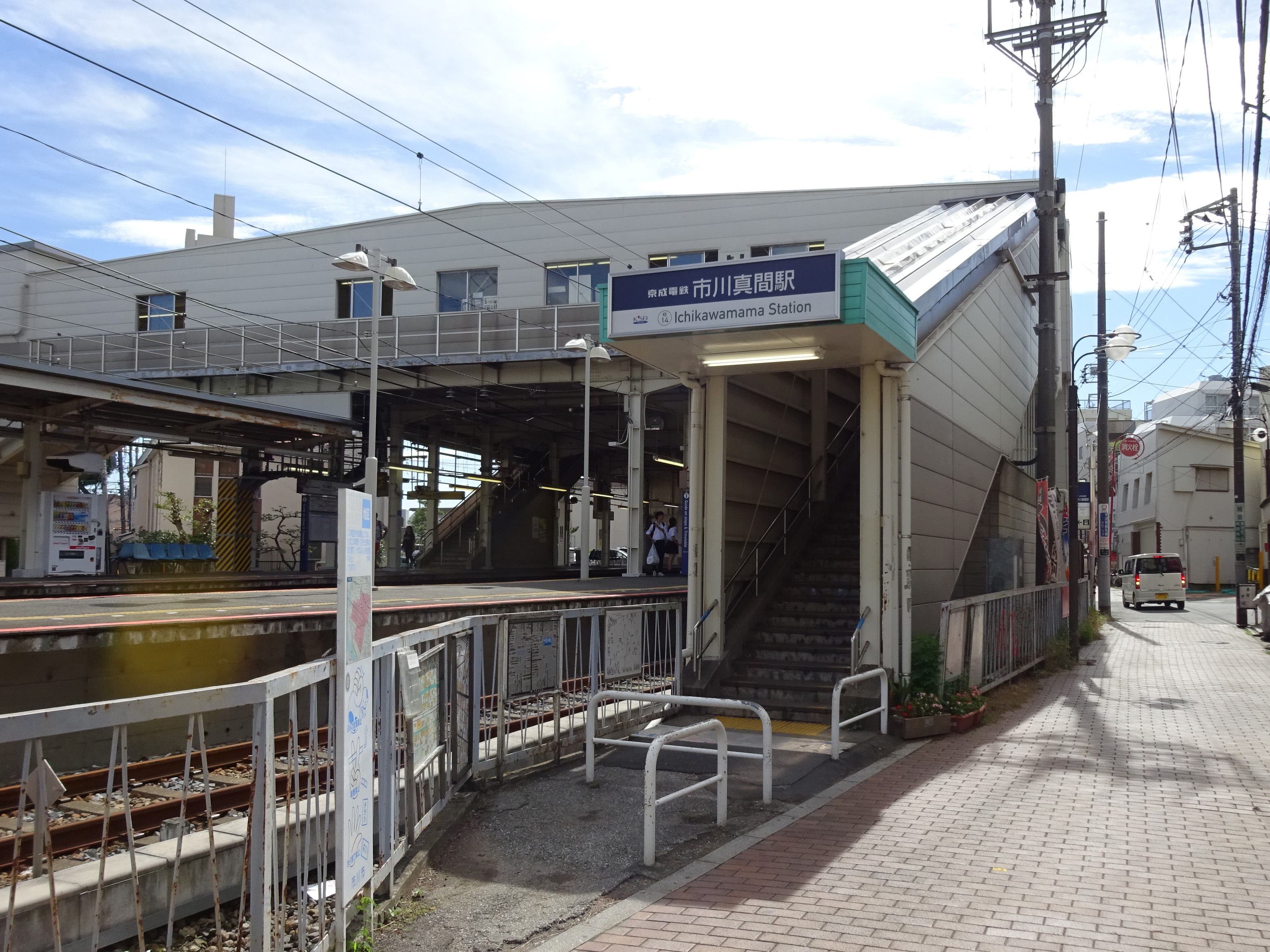 South entrance of Ichikawamama Station